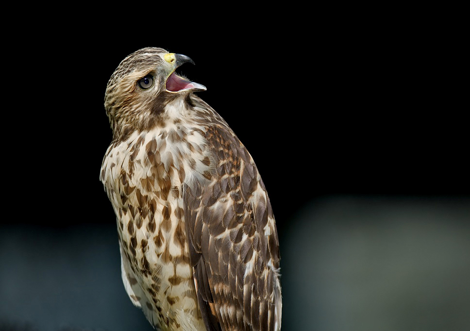 Juvenile red-shouldered hawk